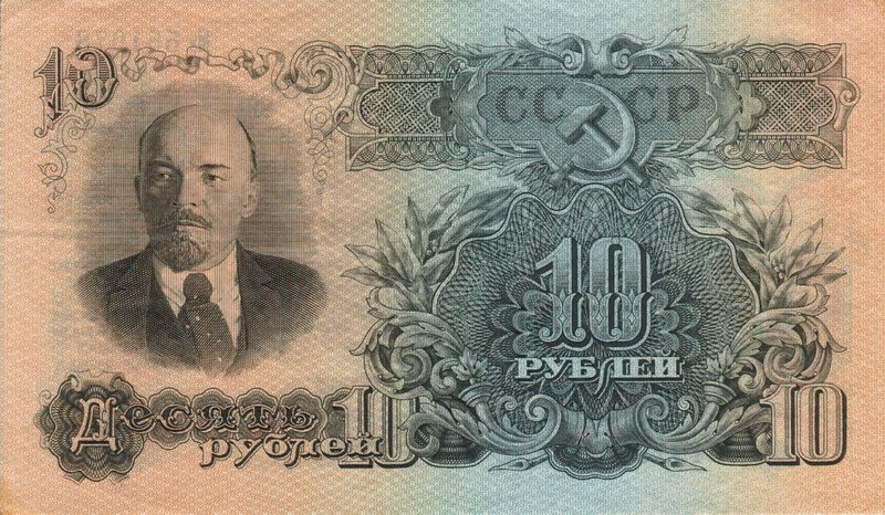 Soviet Union money bill, 1947. See also other side Image:10roubles1947a.jpg. There are two variants of this note. Both with "1947" printed, but one issued in 1947 (with denomination printed in 16 languages), the other issued in 1957 (15 languages), after the Karelo-Finnish SSR (in Russian) is absorbed into Russian SFSR (in Russian). There is no easy way to distinguish from this side, but the other side is the 1947 variant.